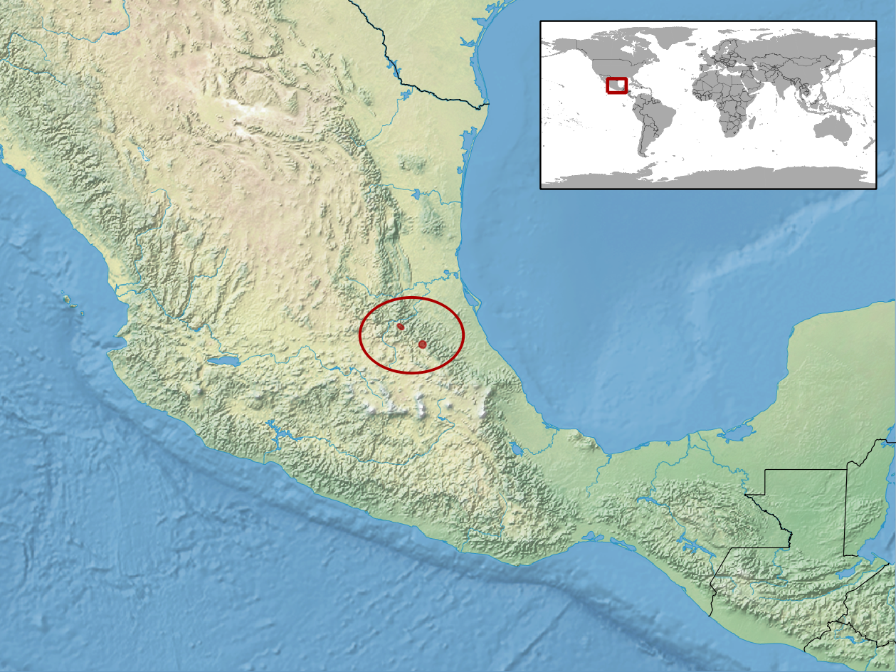 geographic distribution of Ficimia hardyi (Native: Mexico)